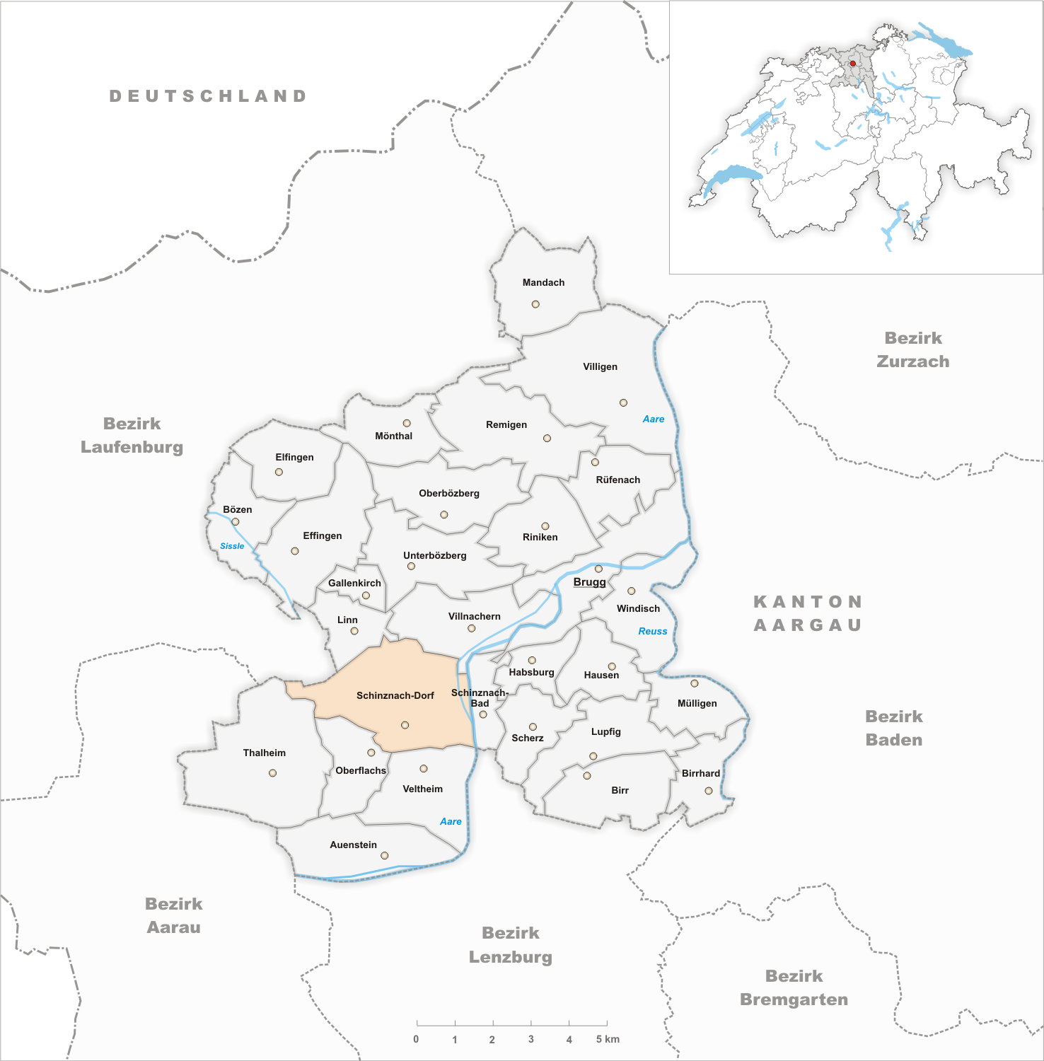 Municipality Schinznach-Dorf